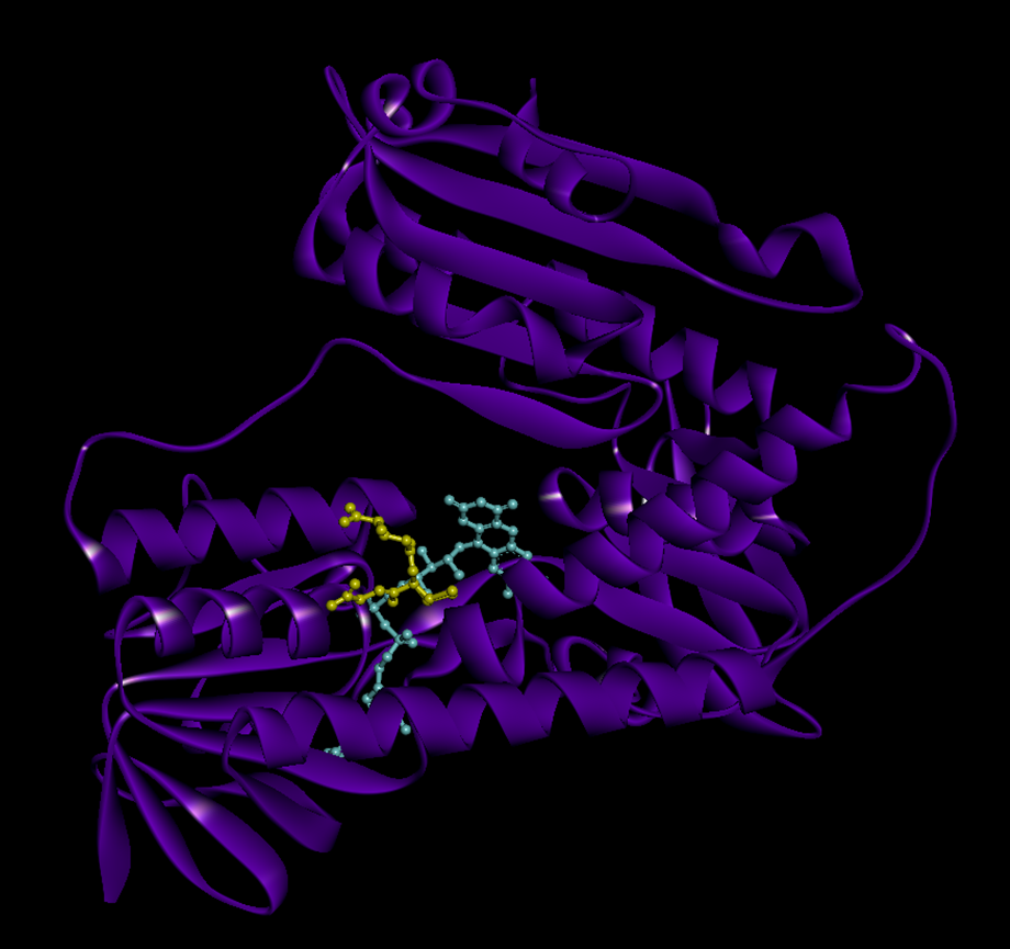 Figure 1. Human Glutathione reducase with bound glutathione and FADH.